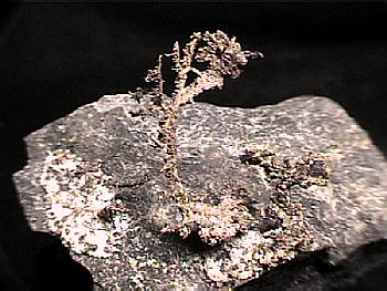 Silver Locality: Ringnesgangen Mine, Vinoren Southern Mines, Vinoren Silver Mine Field, Kongsberg Silver Mining District, Svene, Flesberg, Buskerud, Norway (Locality at ) This contemporary locality (NEAR but not at Kongsberg) produces very few specimens with arborescent freestanding silver, but this piece has a 4 cm tall cluster of wire silver! A very attractive specimen with lots of display value for the buck, I think, in terms of showing off a matrix silver specimen. 8 x 5 x 5 cm